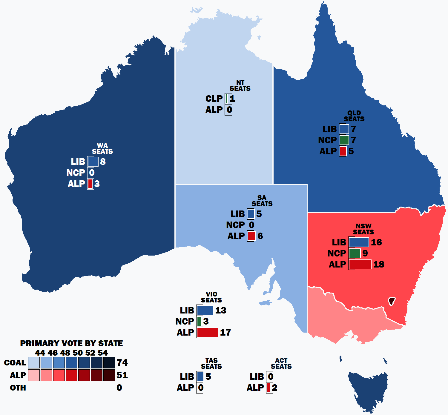 Result of the primary vote by state and territory in the 1980 Australian federal election.